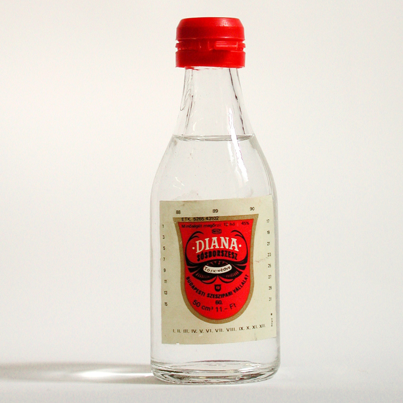 Spiritus menthae cum sale Bottle of Hungary 1978. - special medicine tincture menthae in alcohol.